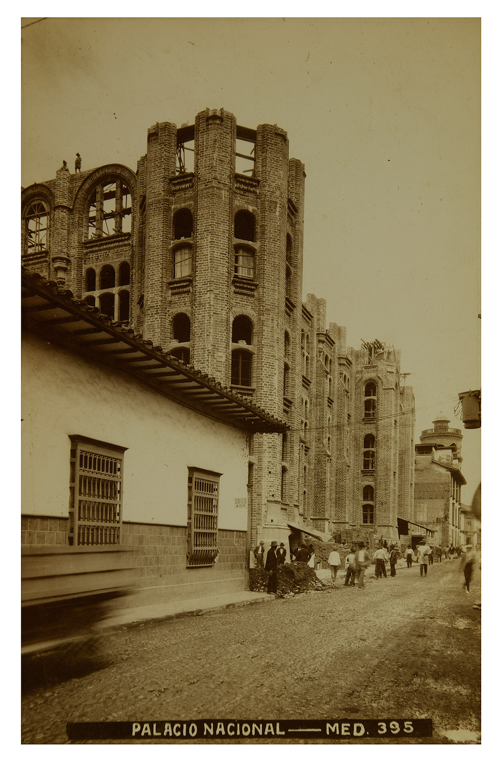 Palacio Nacional, Medellín, 1920